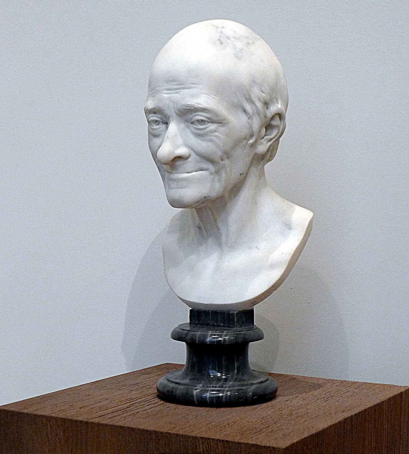 Marble bust of François-Marie Arouet dit Voltaire by Jean-Antoine Houdon, 1778. Fine Arts museum of Angers, France.